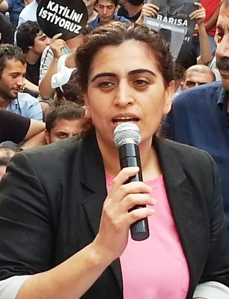 Peoples' Democratic Party (Turkey) activists and MPs Sebahat Tuncel and Sırrı Sürreya Önder during a protest against the government